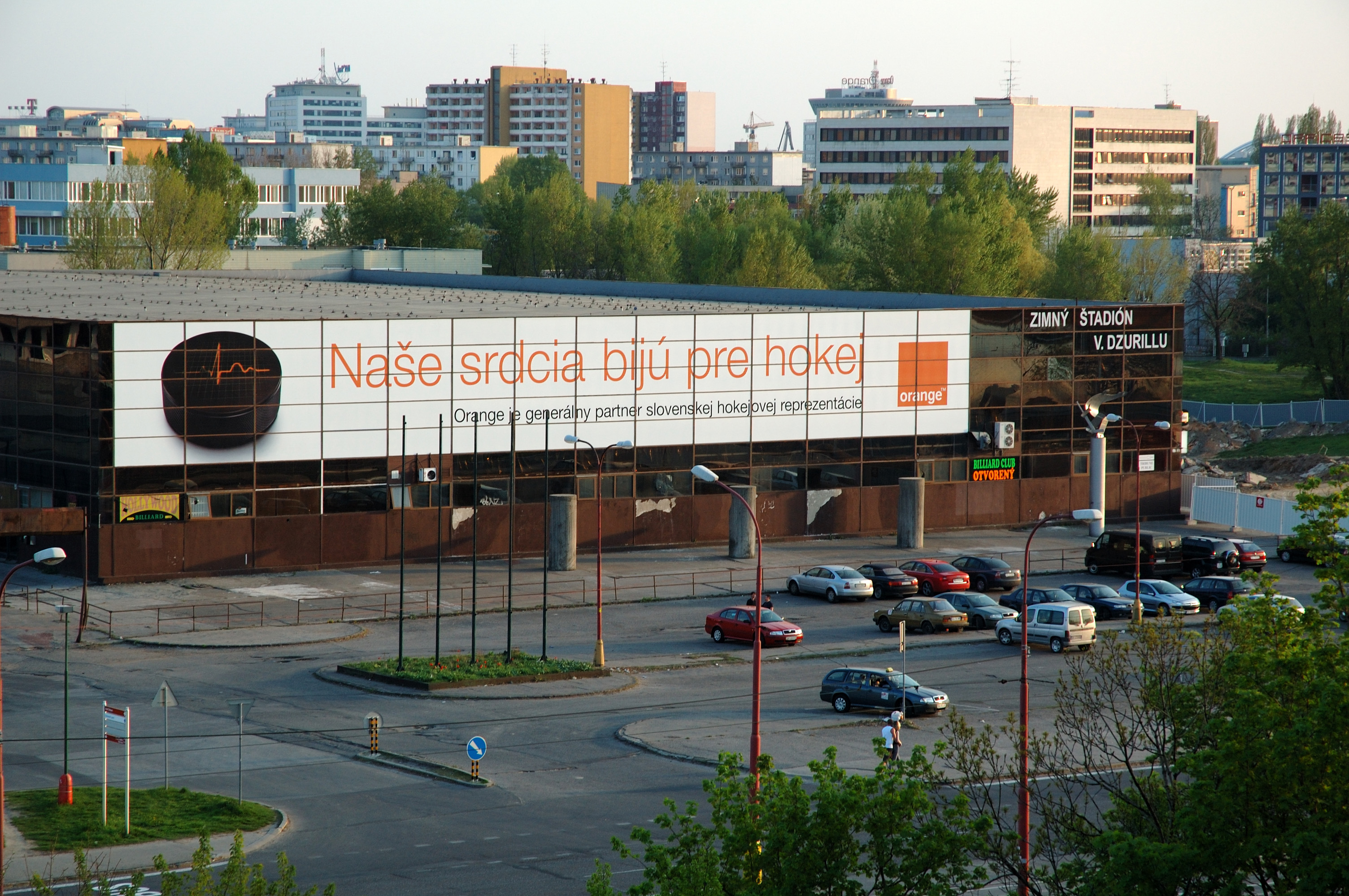 Description: Ice hockey hall of Vladimíra Dzurillu. Author: Radovan Bahna, April 2006